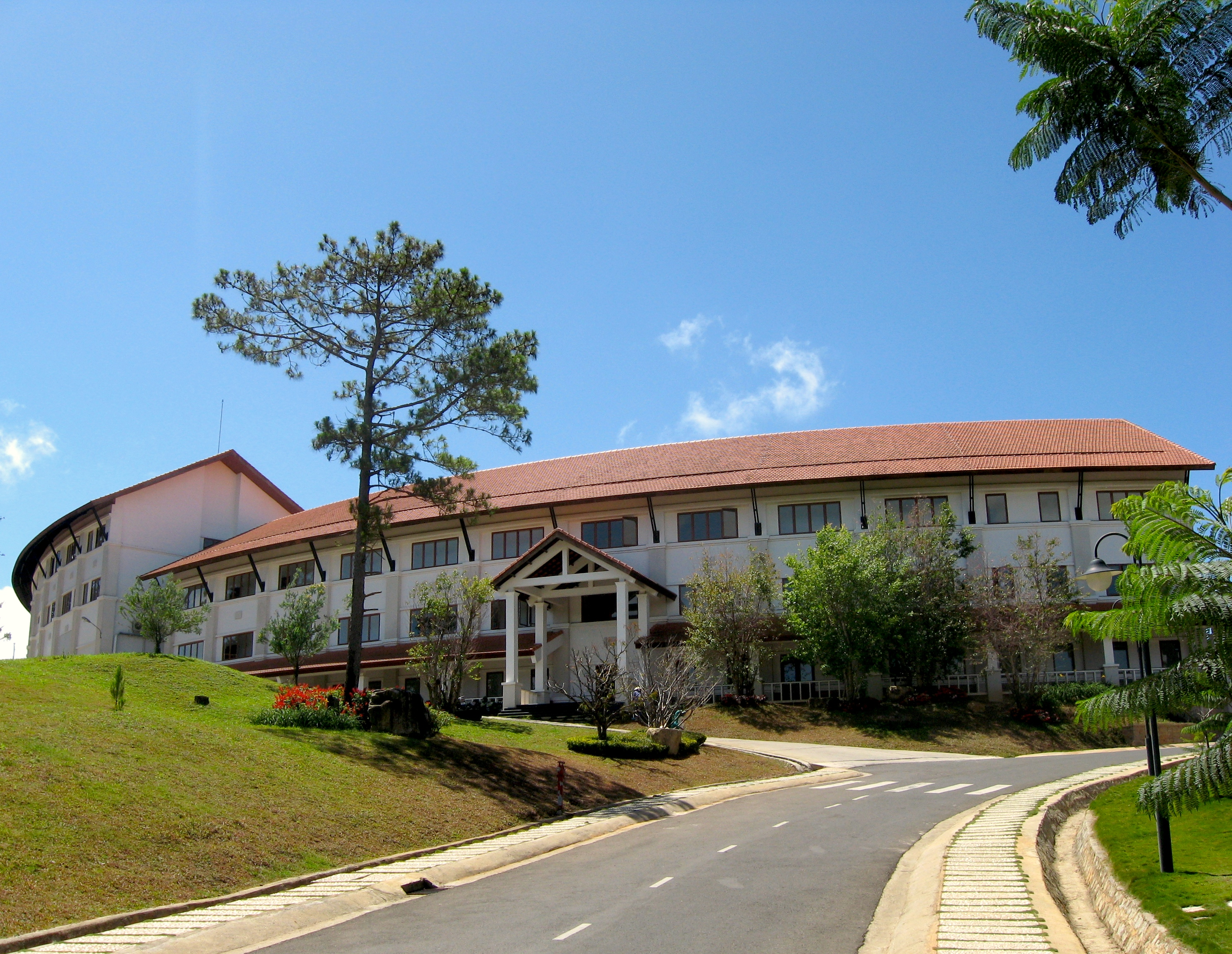 Hoan My Hospital, Da Lat